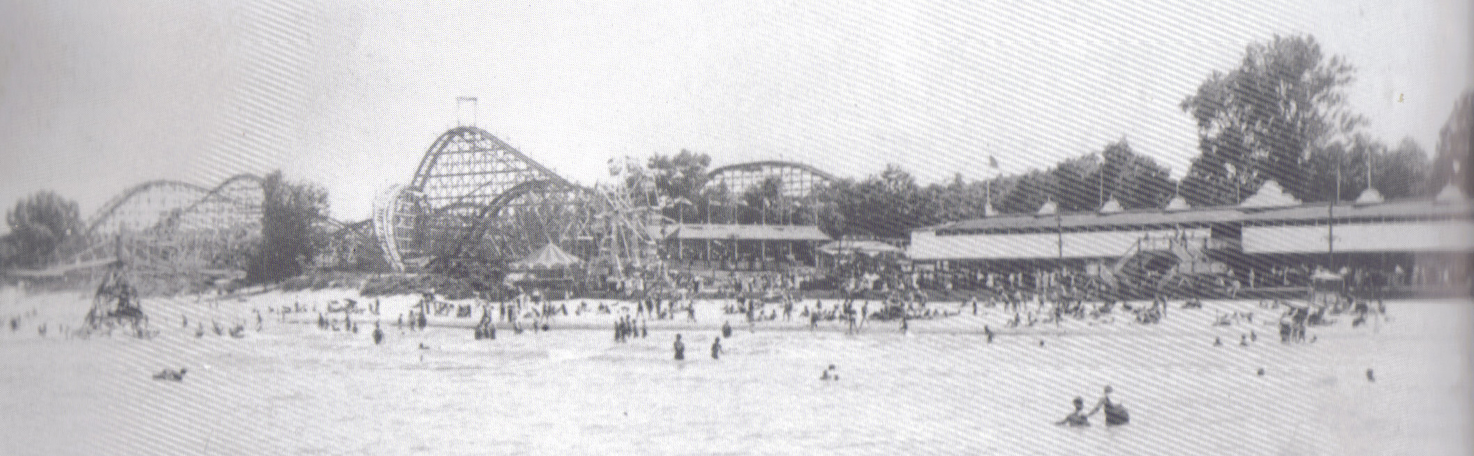 Pictured is a look at Cedar Point from the lake in the late 1930s. The Cyclone Roller Coaster is on the far left, the first hill of the High Frolics Roller Coaster is in the center and the bathhouse is on the right.